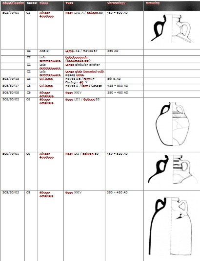 Significant materials recovered from the excavations of Building C, Sanitja (Menorca)